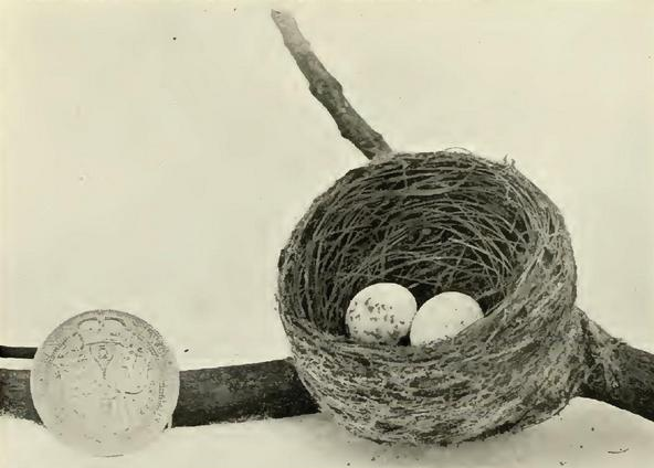 Photo showing Nest with eggs from The birds of Lord Howe and Norfolk Islands. The proceedings of the Linnean Society of New South Wales. Volume XXXIV, 1909.